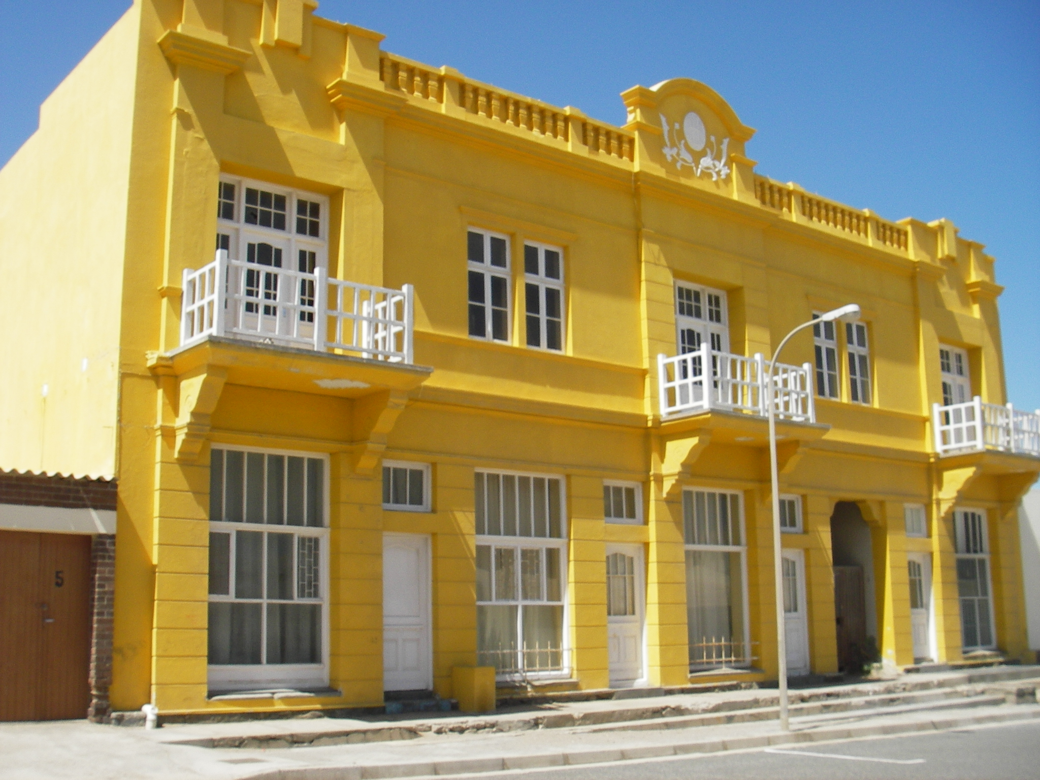 House in Lüderitz